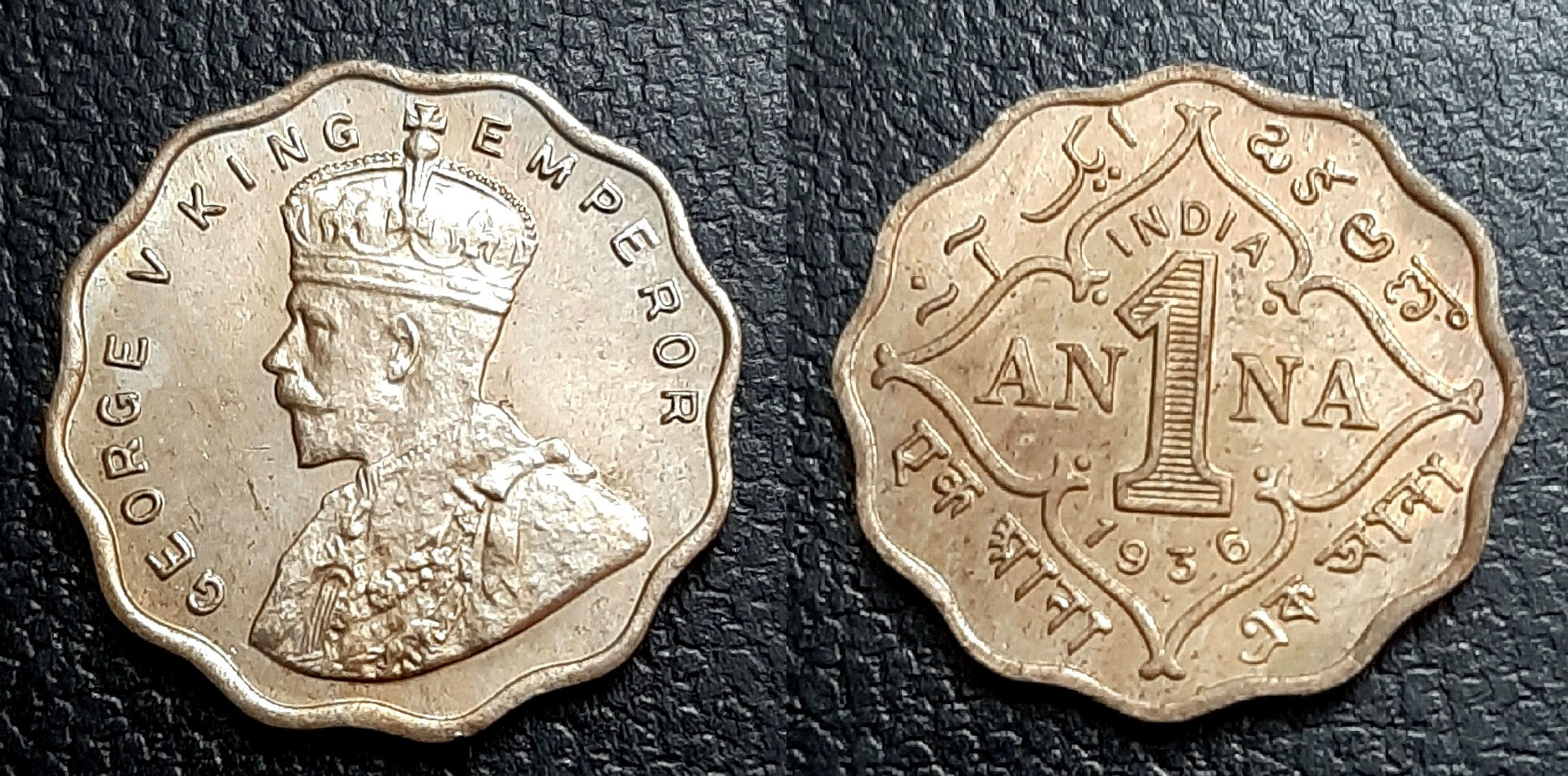 1 Anna, George V, Copper-nickel, Coin